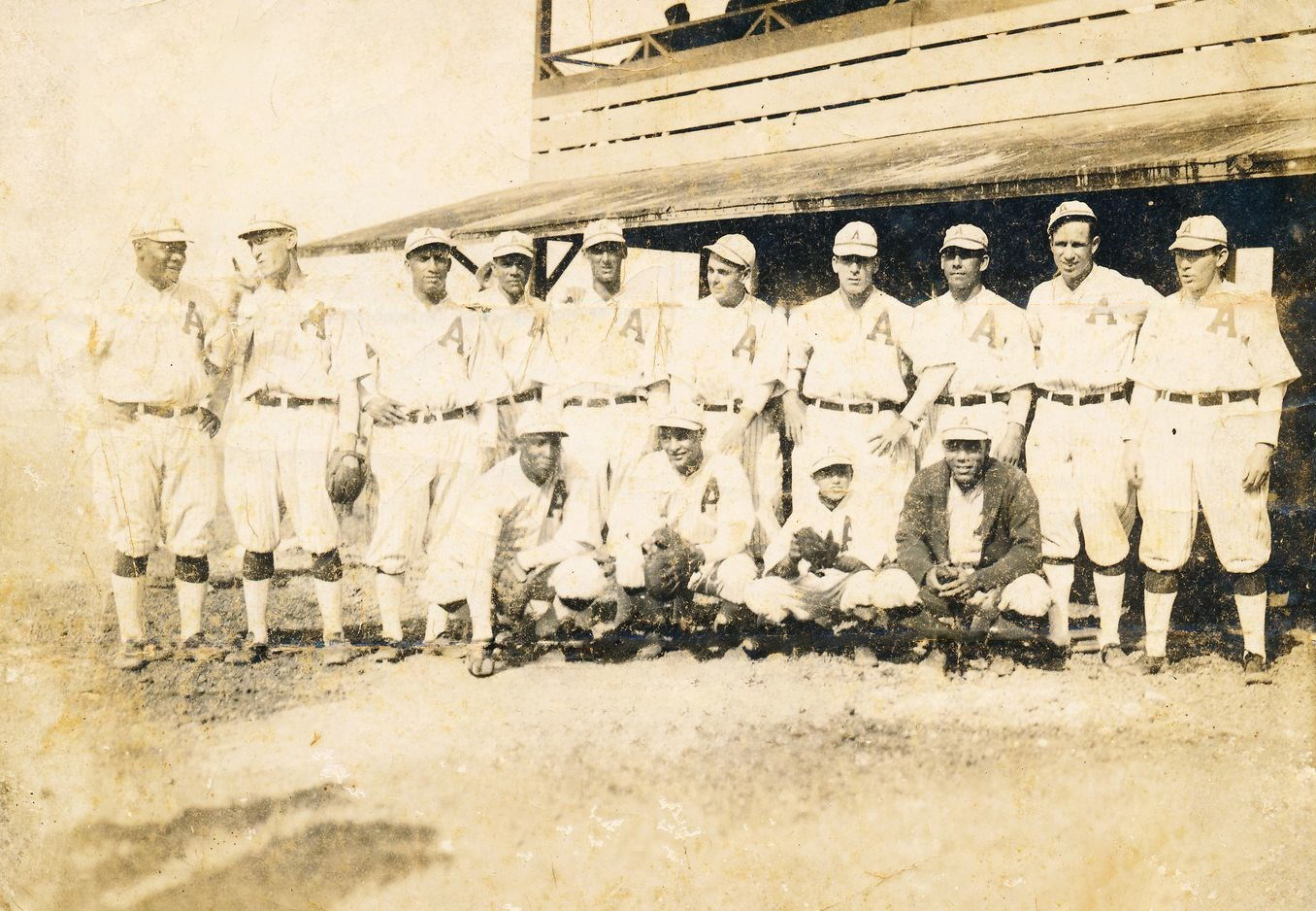 1919-20 Club Almendares of the Cuban League, which captures 14 players in uniform. Cristobal Torriente (top row, far left) is standing next to Rafael Almeida as the two have a conversation. Other men pictured are Bernardo Baro, Pelayo Chacon, Ramon Herrera, Merito Acosta, Adolfo Luque, (next is unidentified), Emilio Palmero, Armando Marsans, Bartolo Portuondo, Eufemio Abreu, Mascot, and Isido Fabre.